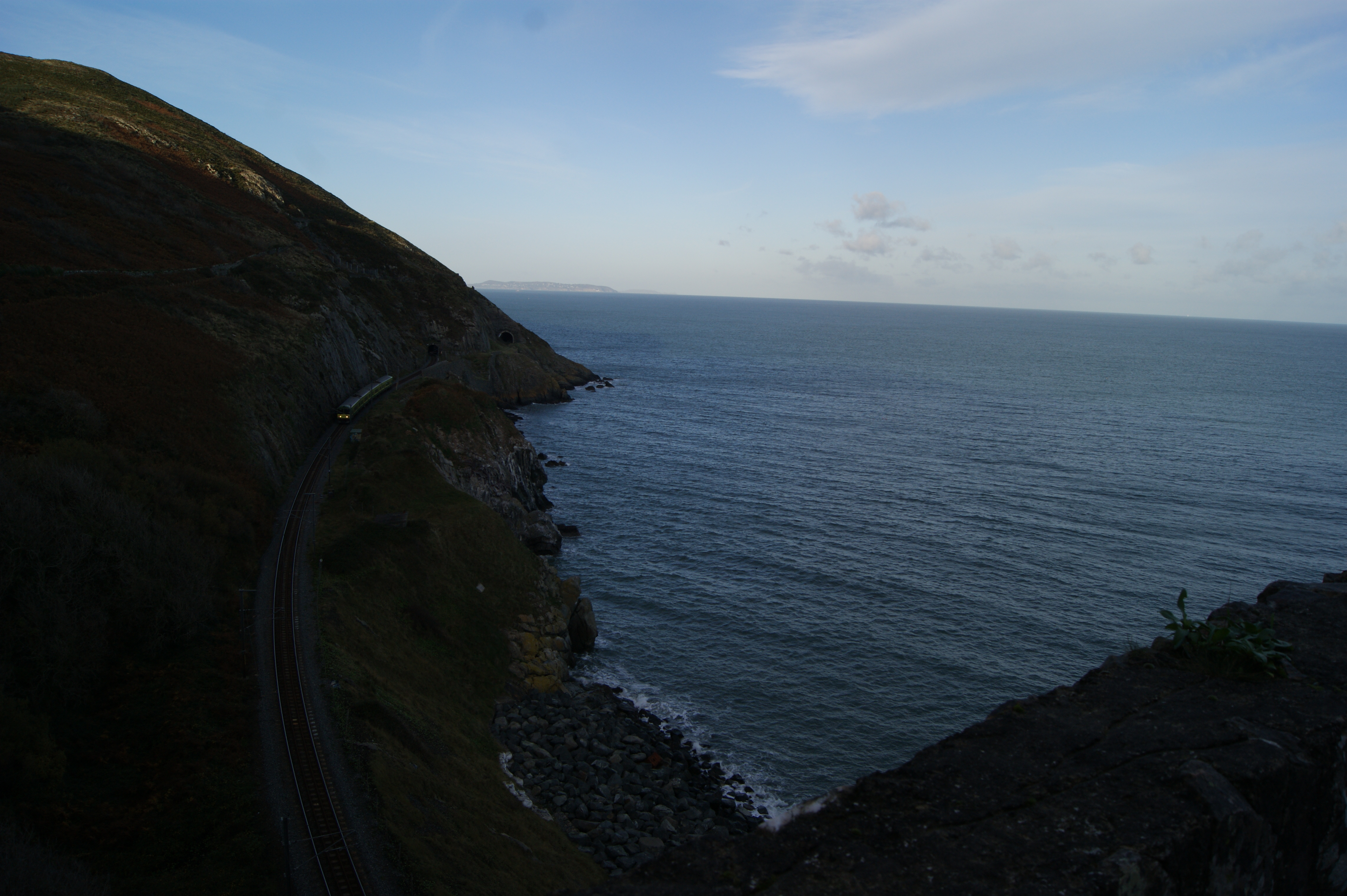 Bray – Greystones, Costal Walk: DART train near Bray Head